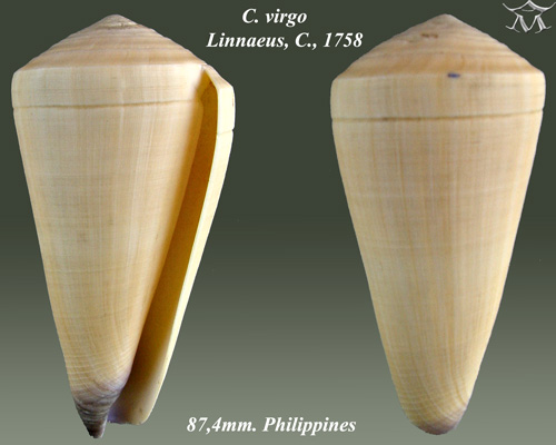 Conus virgo 1